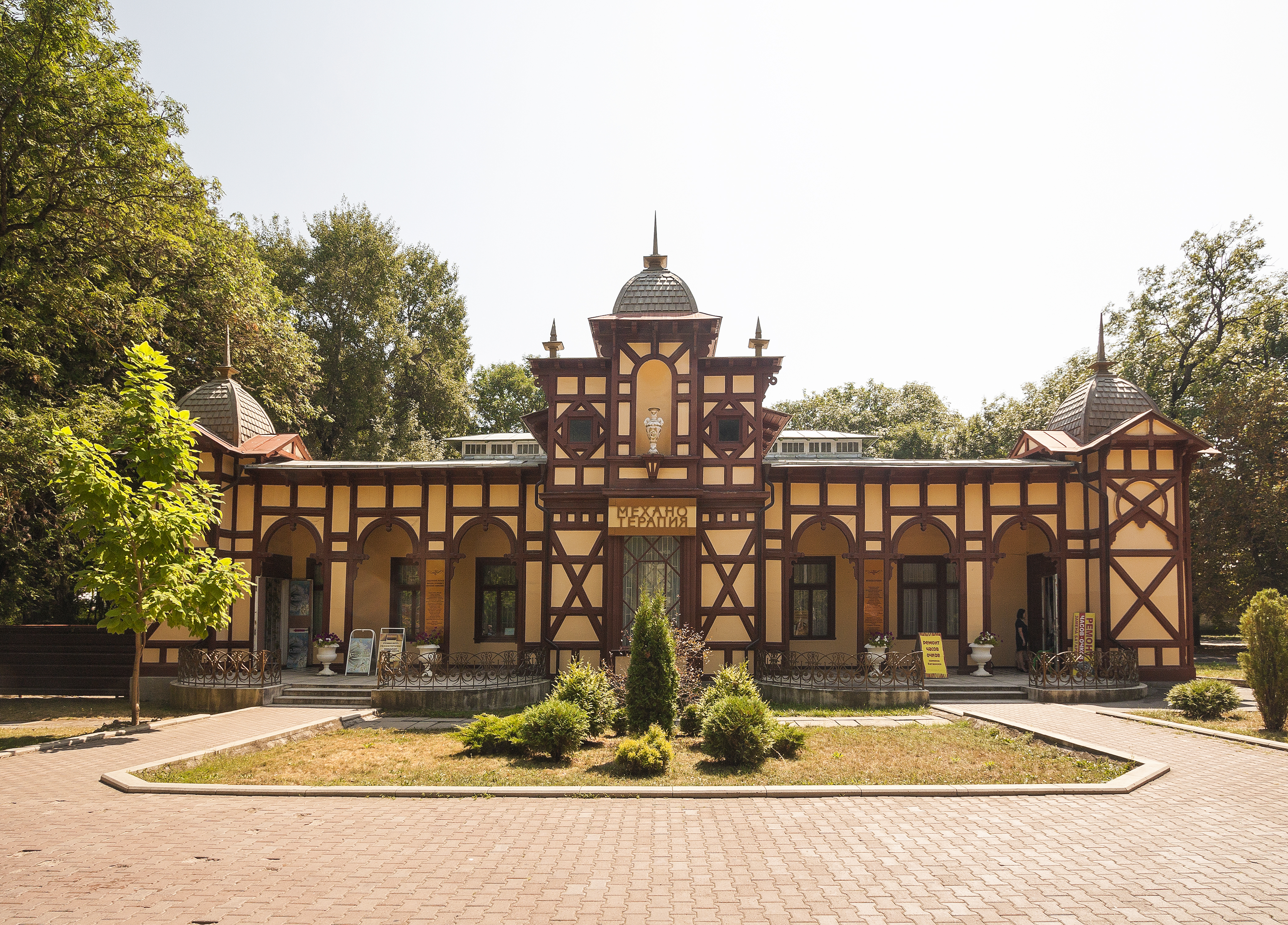 Tsanderovsky Mechano Institute: Medical Park, Yessentuki, Stavropol Territory